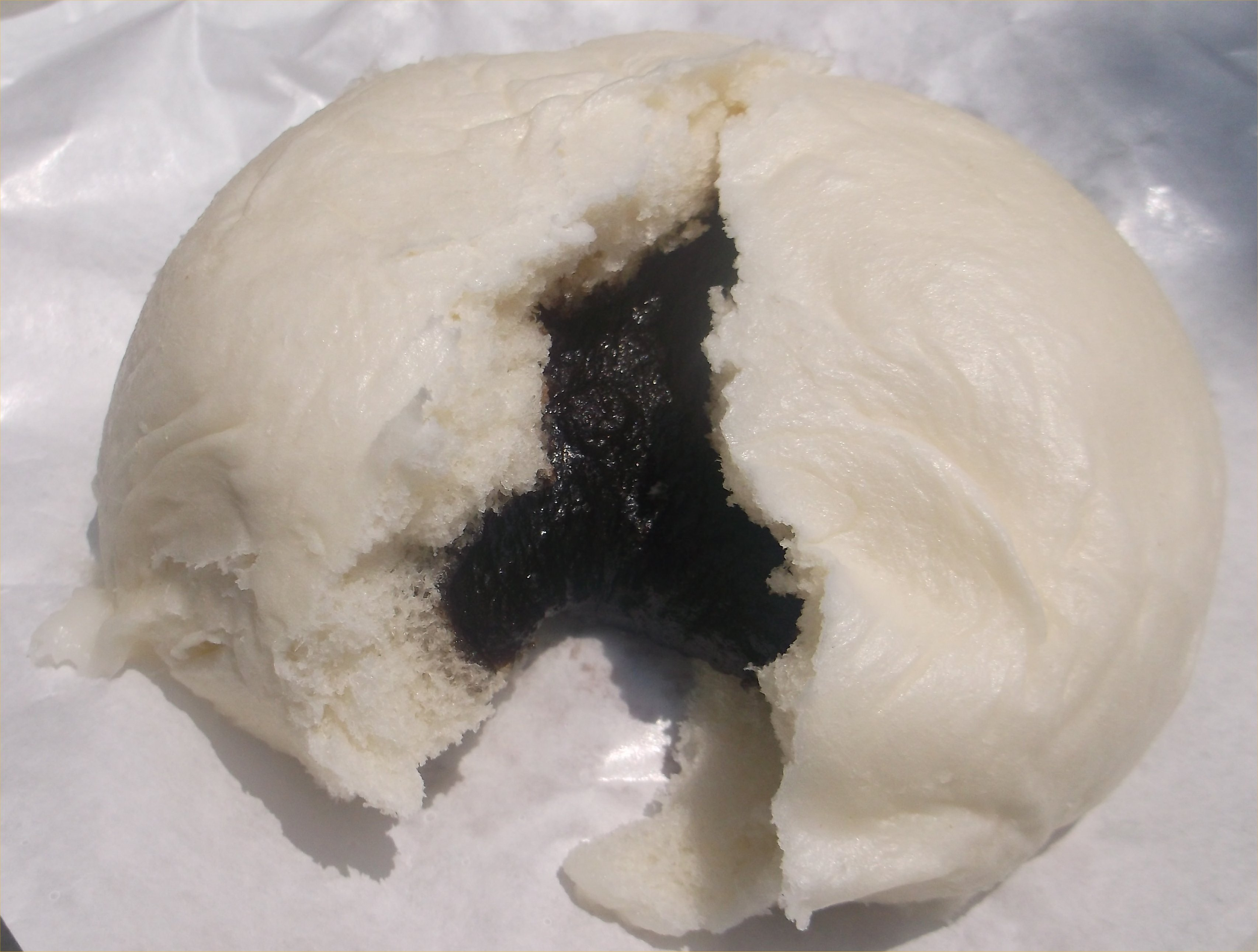 A photo of "anman"(a kind of Chuka man,steamed bread with sesame paste) produced by Shinjuku Nakamuraya co. Ltd.